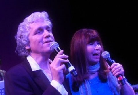 Publicity photograph of Michael Dunn and Dee Dee Phelps performing as Dick and Dee Dee in 2011